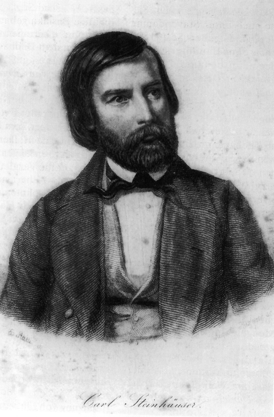 Carl Steinhäuser (1813–1879) sculptor from Bremen (Germany).